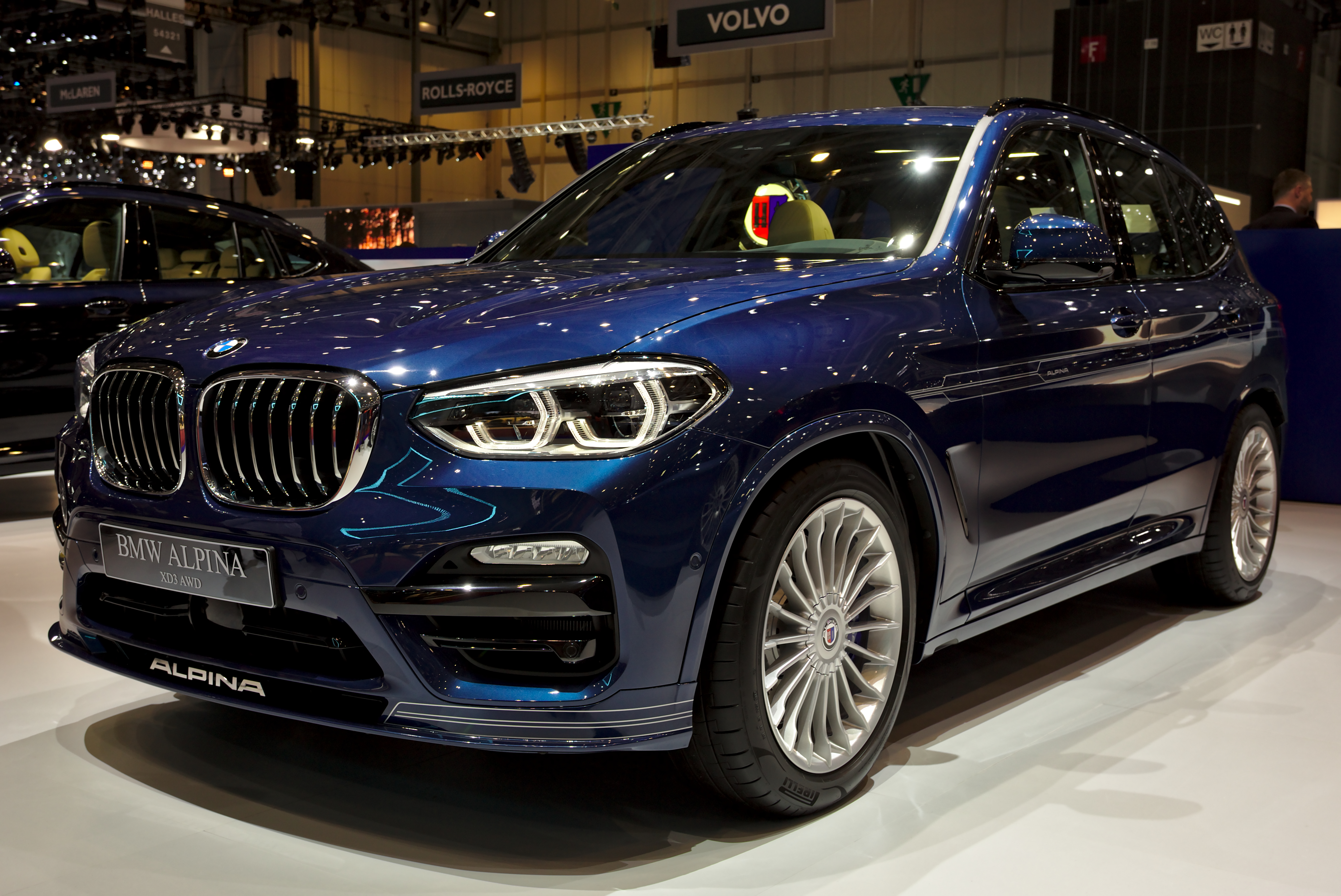 Alpina XD3 at Geneva Motorshow 2018